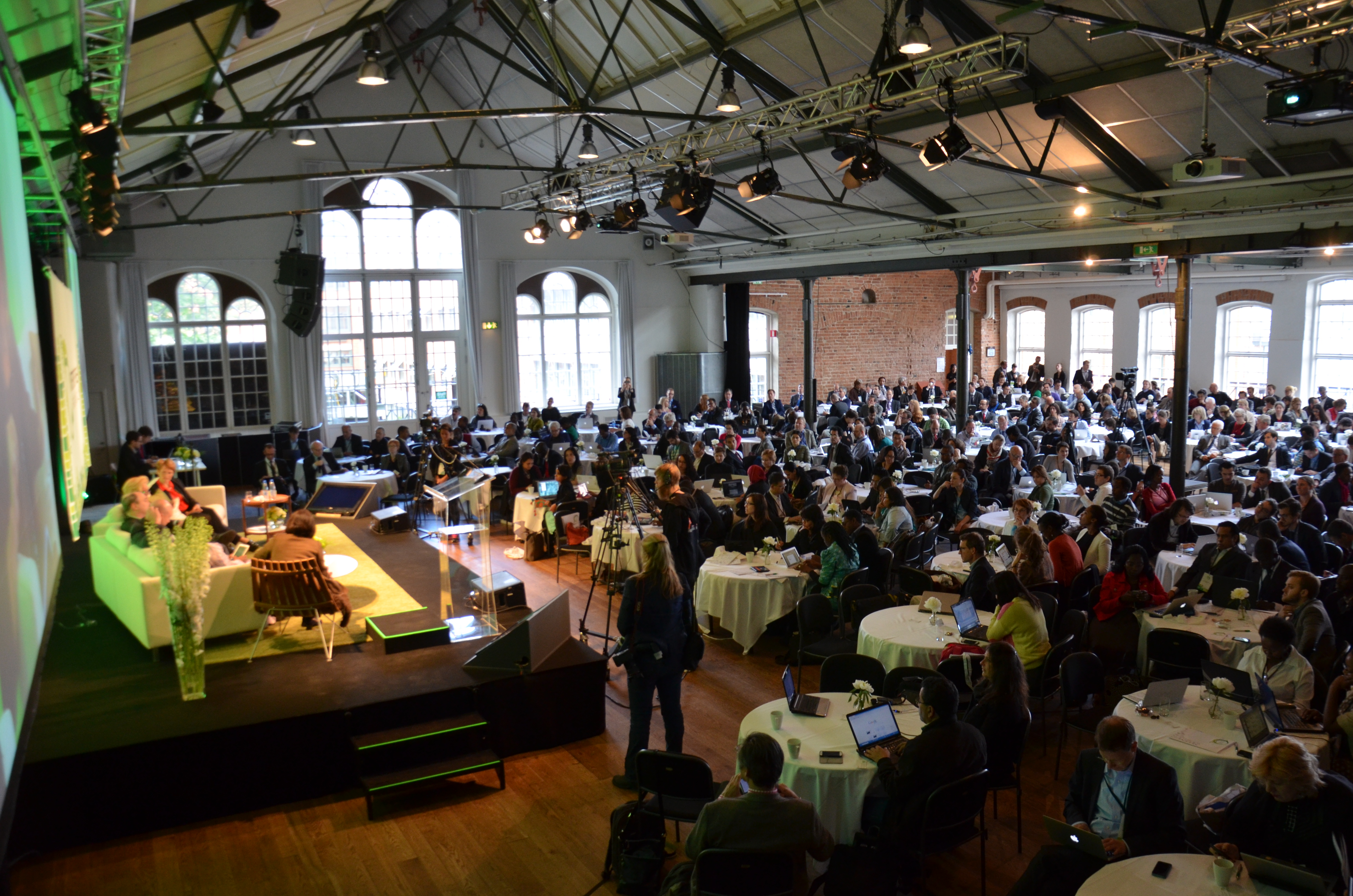 Stockholm Internet Forum 2014